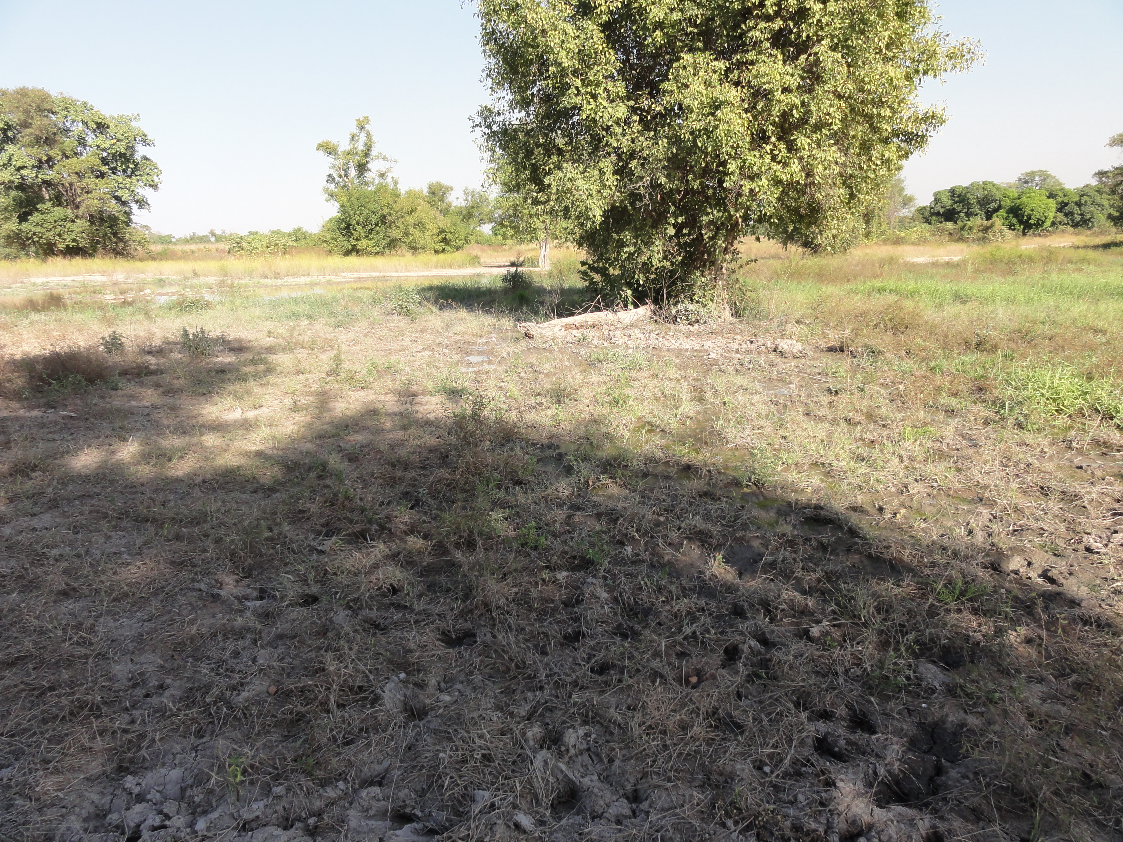 Rice cultivation in Benin